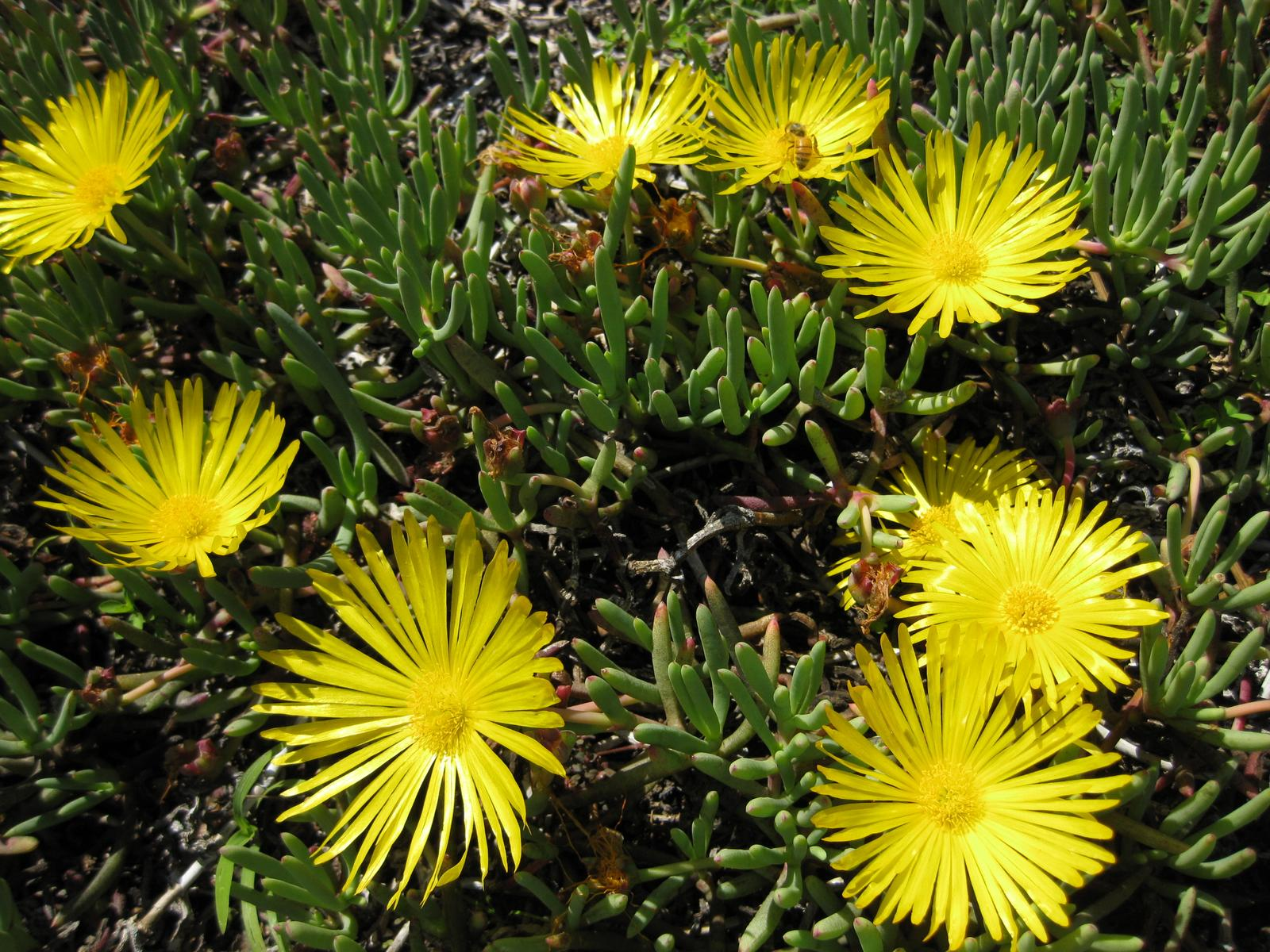 Photographed at Huntington Gardens (Los Angeles, California) in March